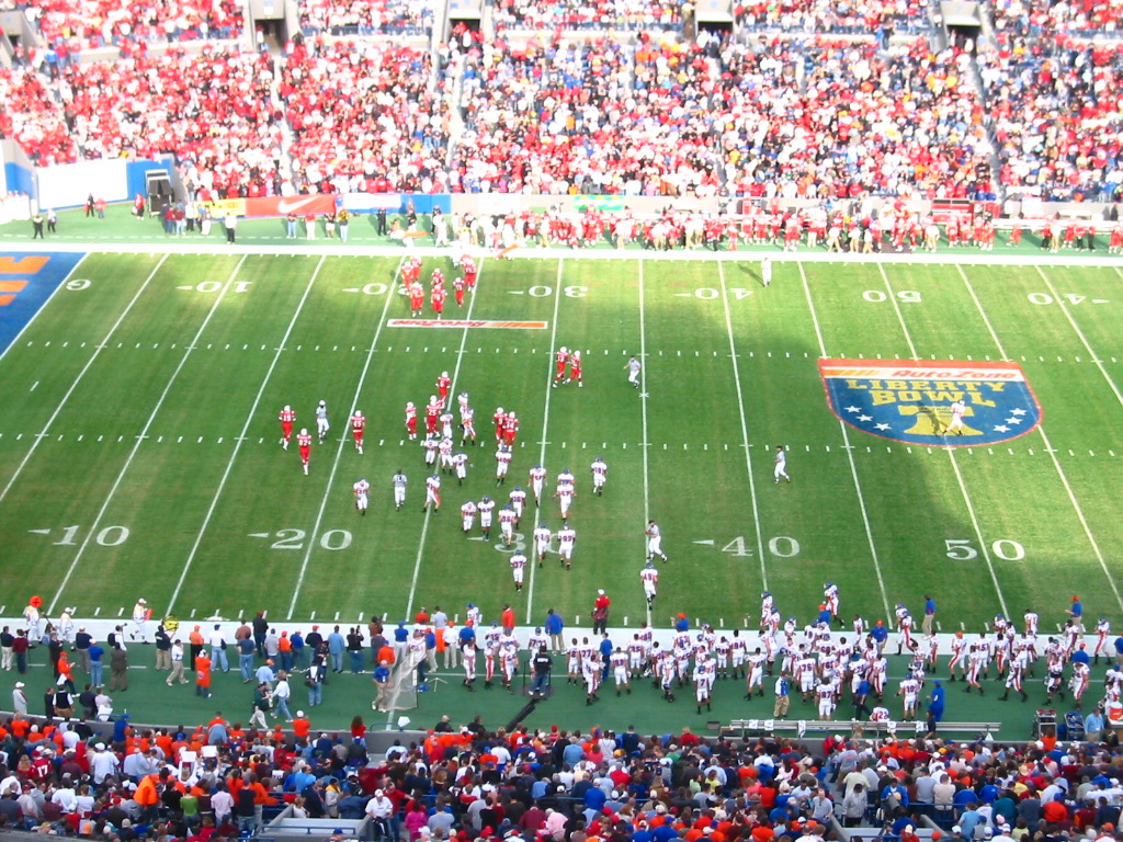 Liberty Bowl - December 31, 2004. Boise State University versus Louisville.